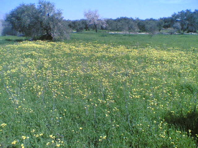 اراضي القرية